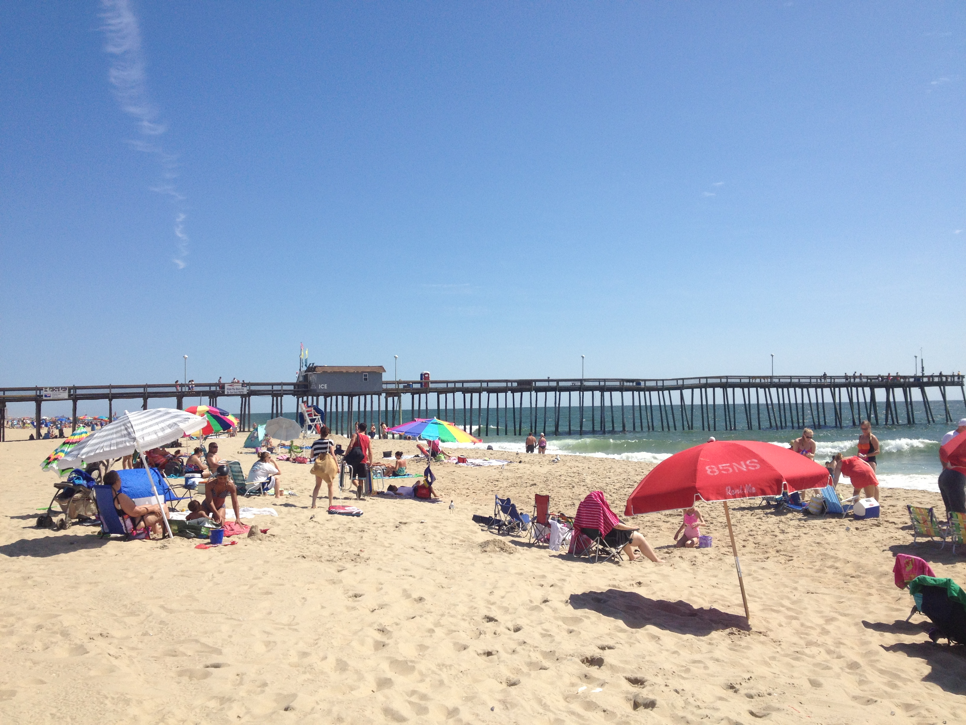 The pier into the Atlantic Ocean in Ocean City, Maryland from the south.